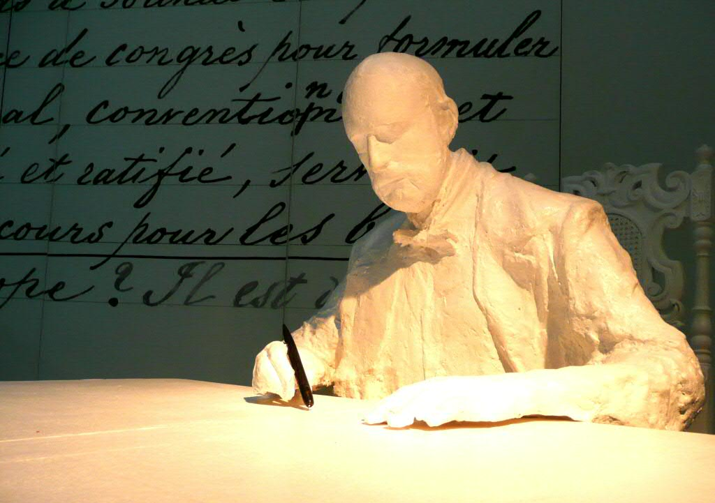 Sculpture of Henry Dunant (1828-1910), founder of the Red Cross movement, in the International Red Cross and Red Crescent Museum, Geneva, Switzerland